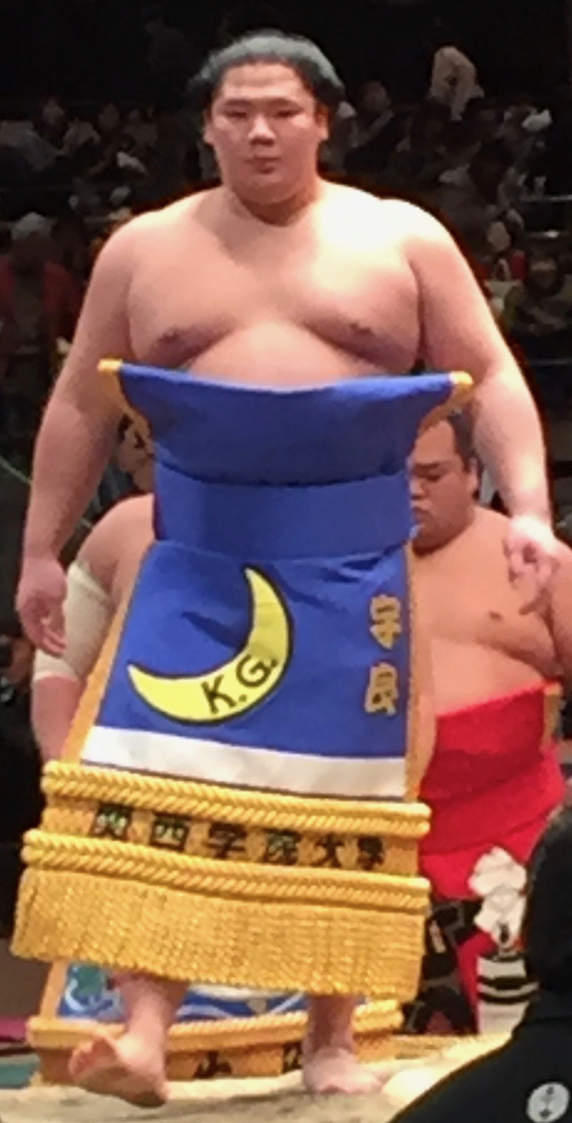 taken at January 2017 tournament